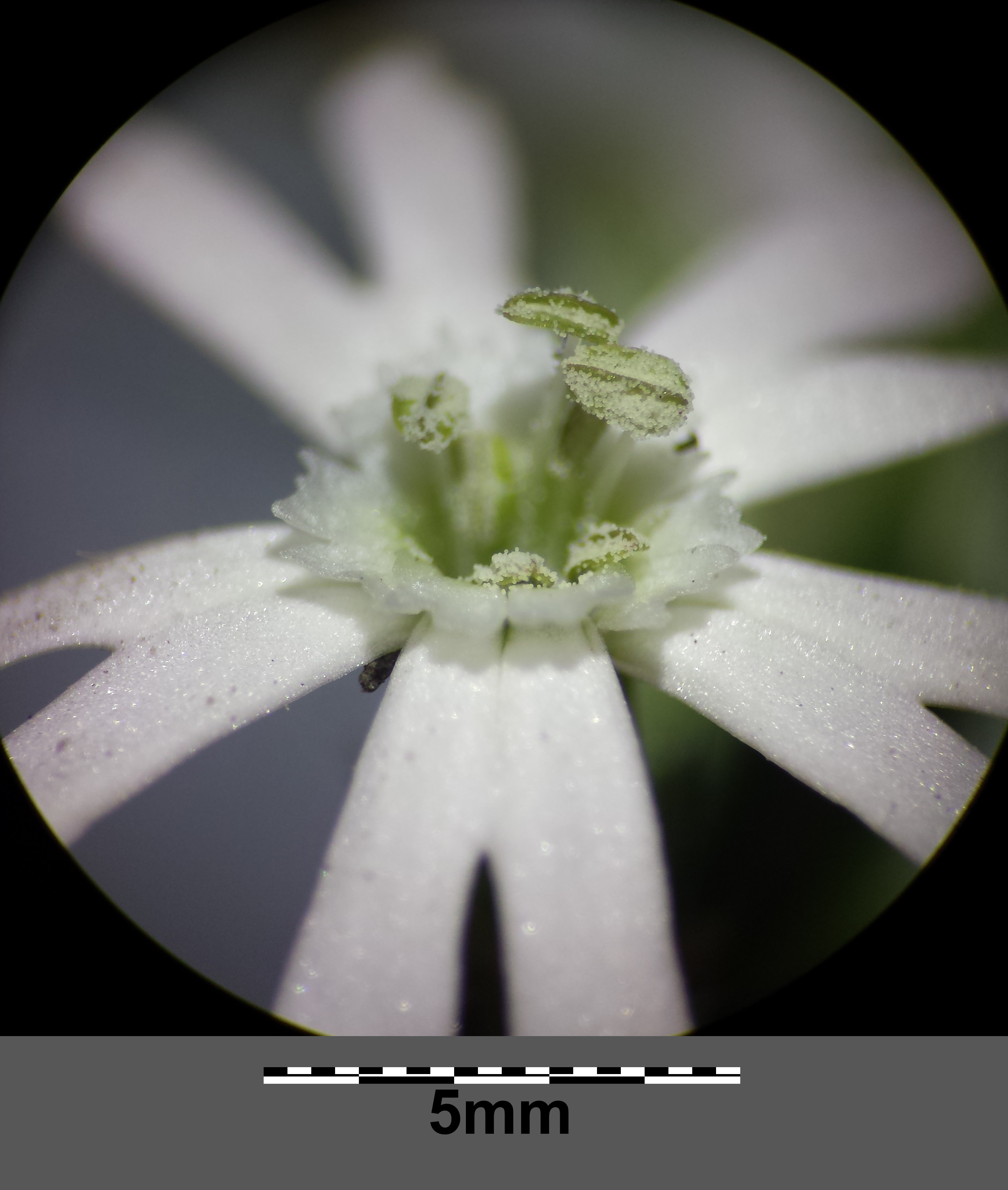 Corolla Taxonym: Silene noctiflora ss Fischer et al. EfÖLS 2008 ISBN 978-3-85474-187-9 Location: Steinberg near Niederhollabrunn, district Korneuburg, Lower Austria - ca. 375 m a.s.l. Habitat: fallow land